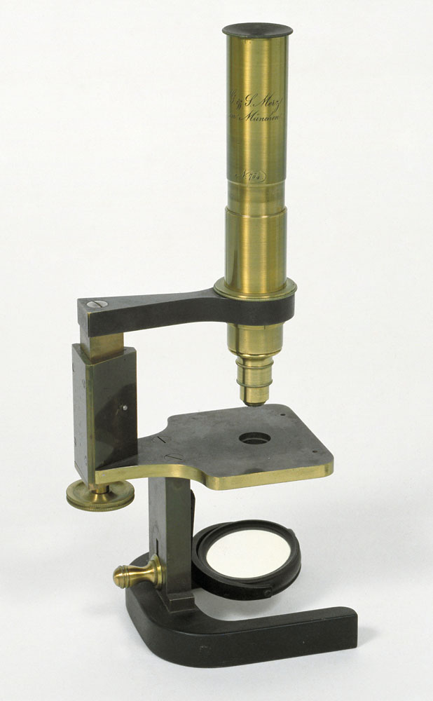 Author G. & S. Merz firmDescription